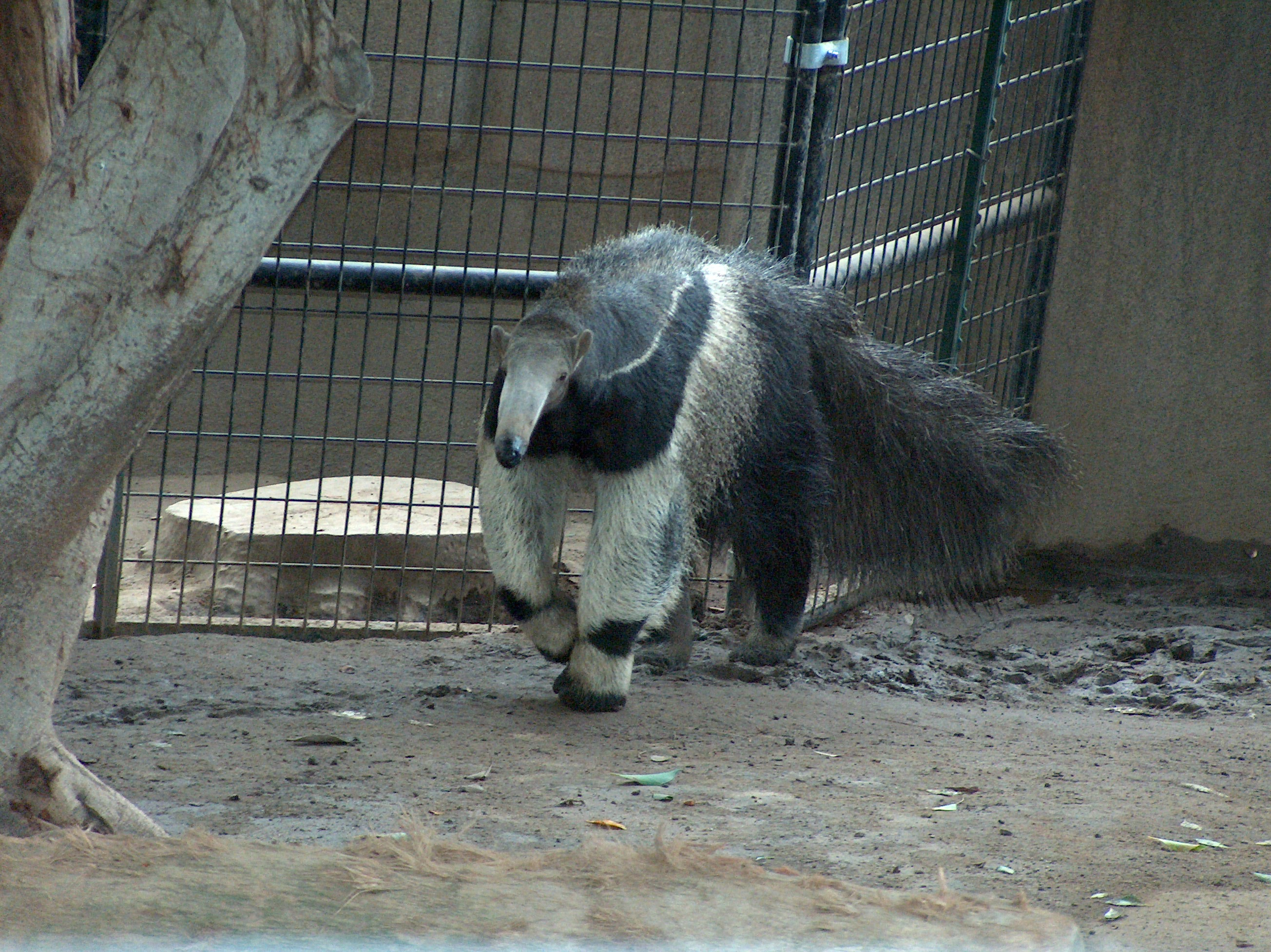 A Giant anteater at the San Diego zoo. Photo taken by User:Mike R on 8 August, 2005.